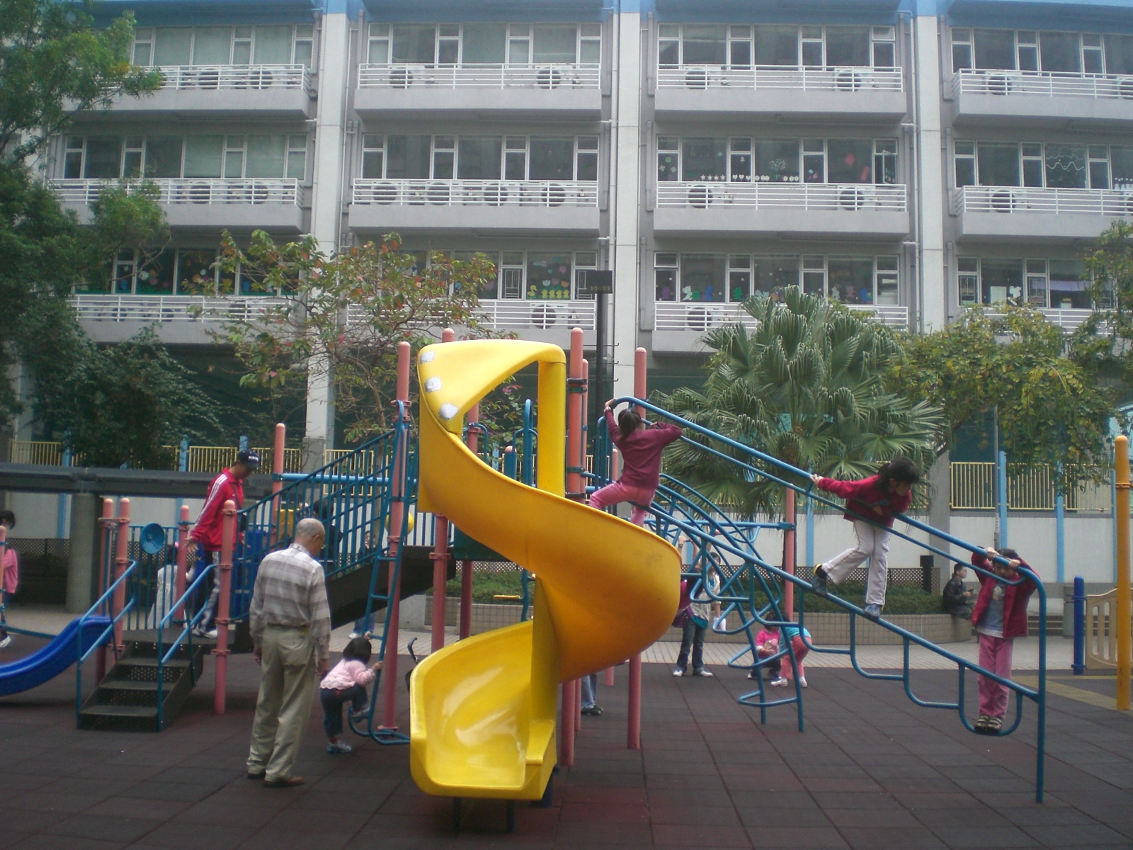 香港東區